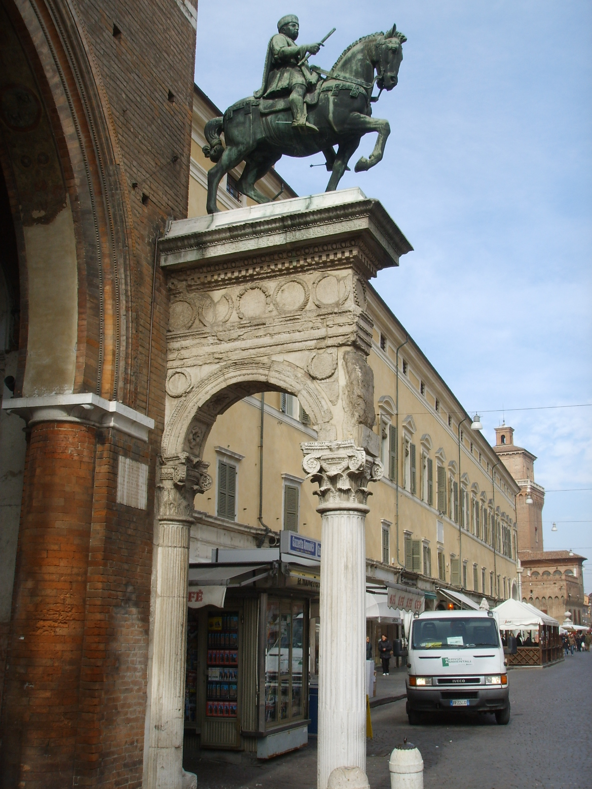 The 20th century replica, before the Palazzo Municipale (Town Hall) of Ferrara (Italy), of the 15th century equestrian bronze monument to Niccolò III of Este. It is given to Leon Battista Alberti.